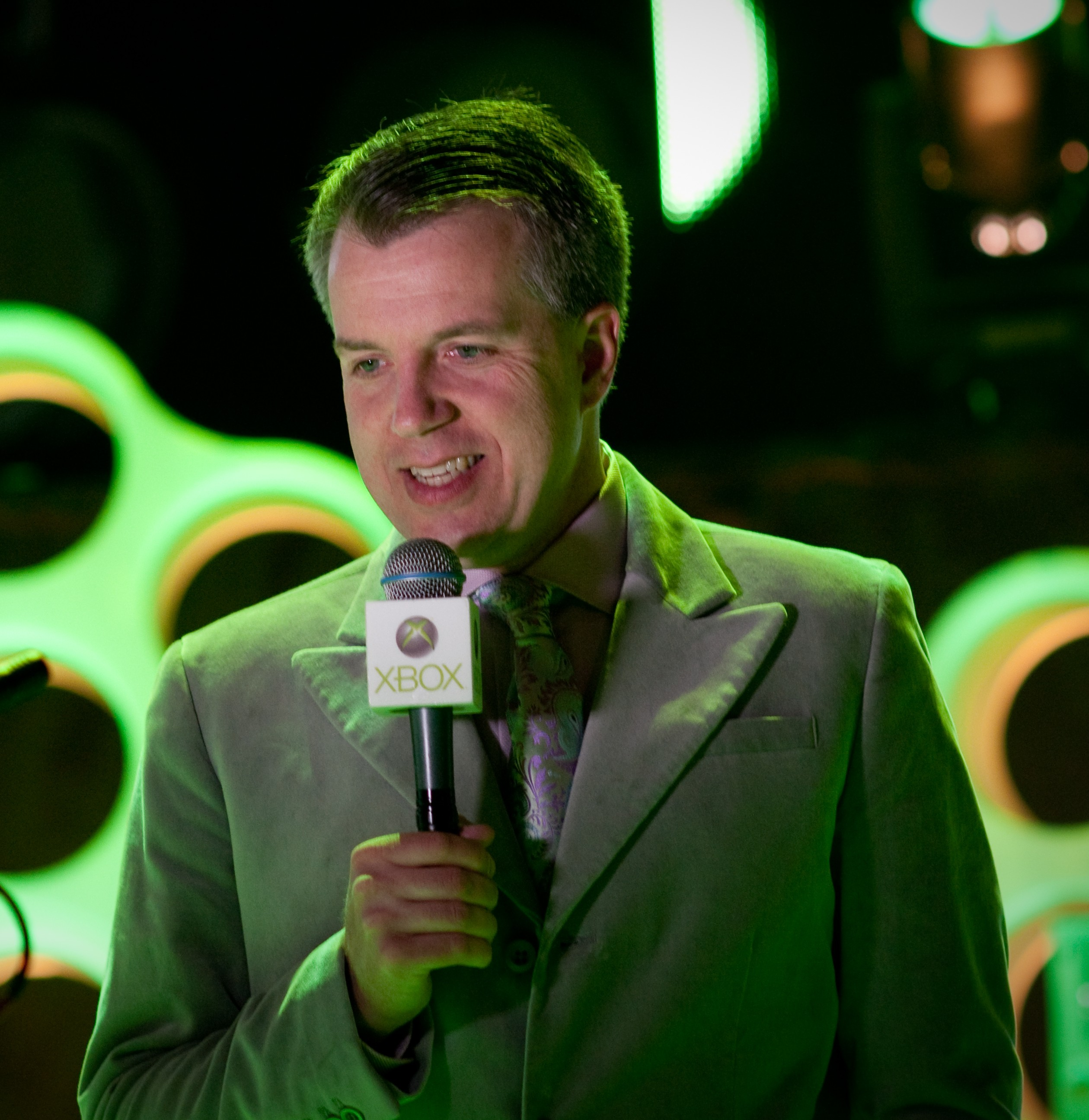 Major Nelson at the 2009 E3